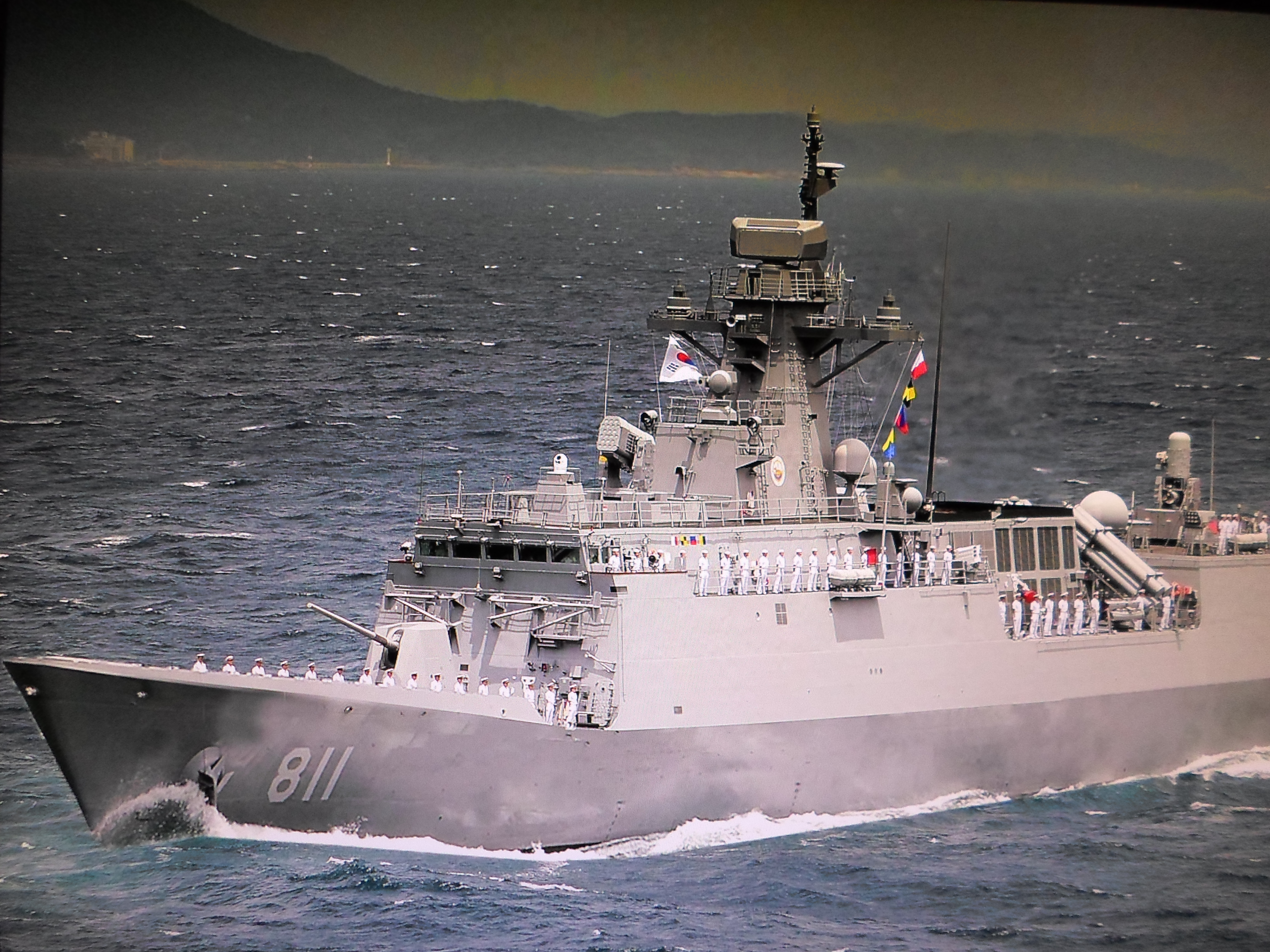 Incheon Class Frigate